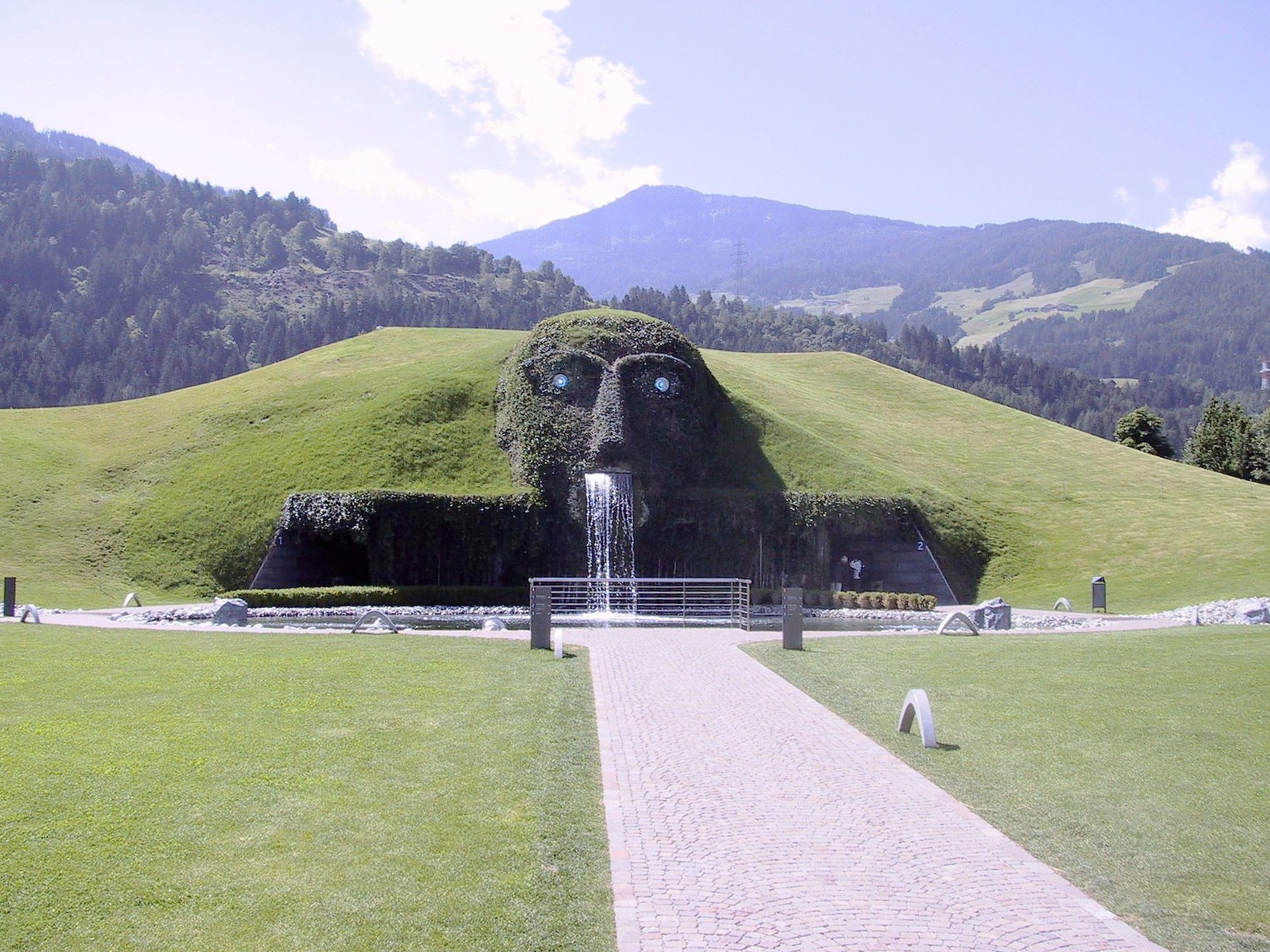 Swarovski Crystal world in Wattens, Tirol, Austria